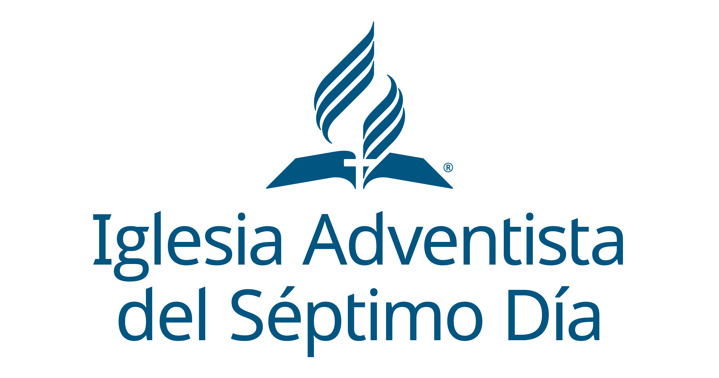 Official Seventh-day Adventist Church logo for Spanish speaking countries.